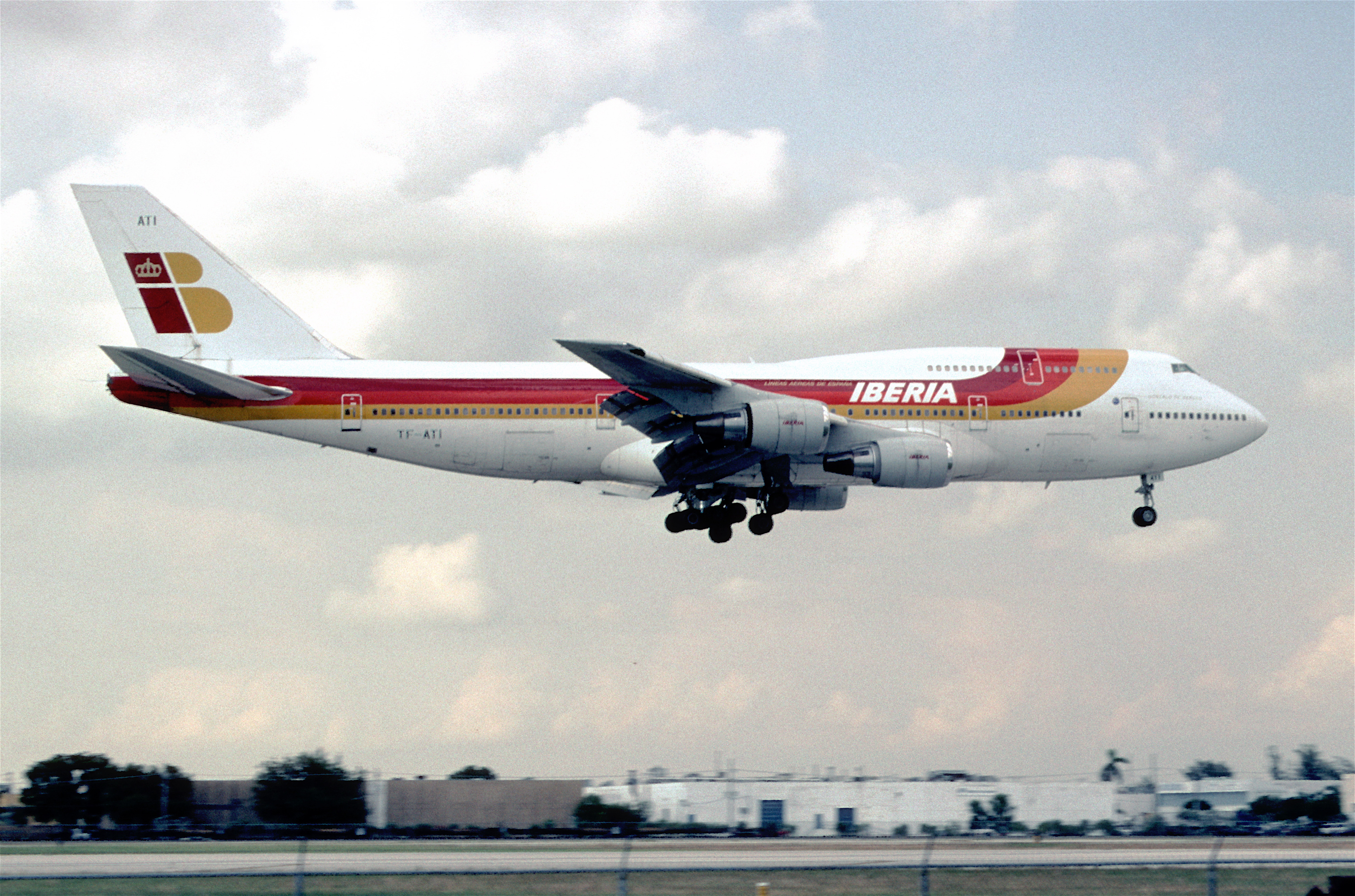 374ci - IBERIA Boeing 747-341; TF-ATI@MIA;31.08.2005